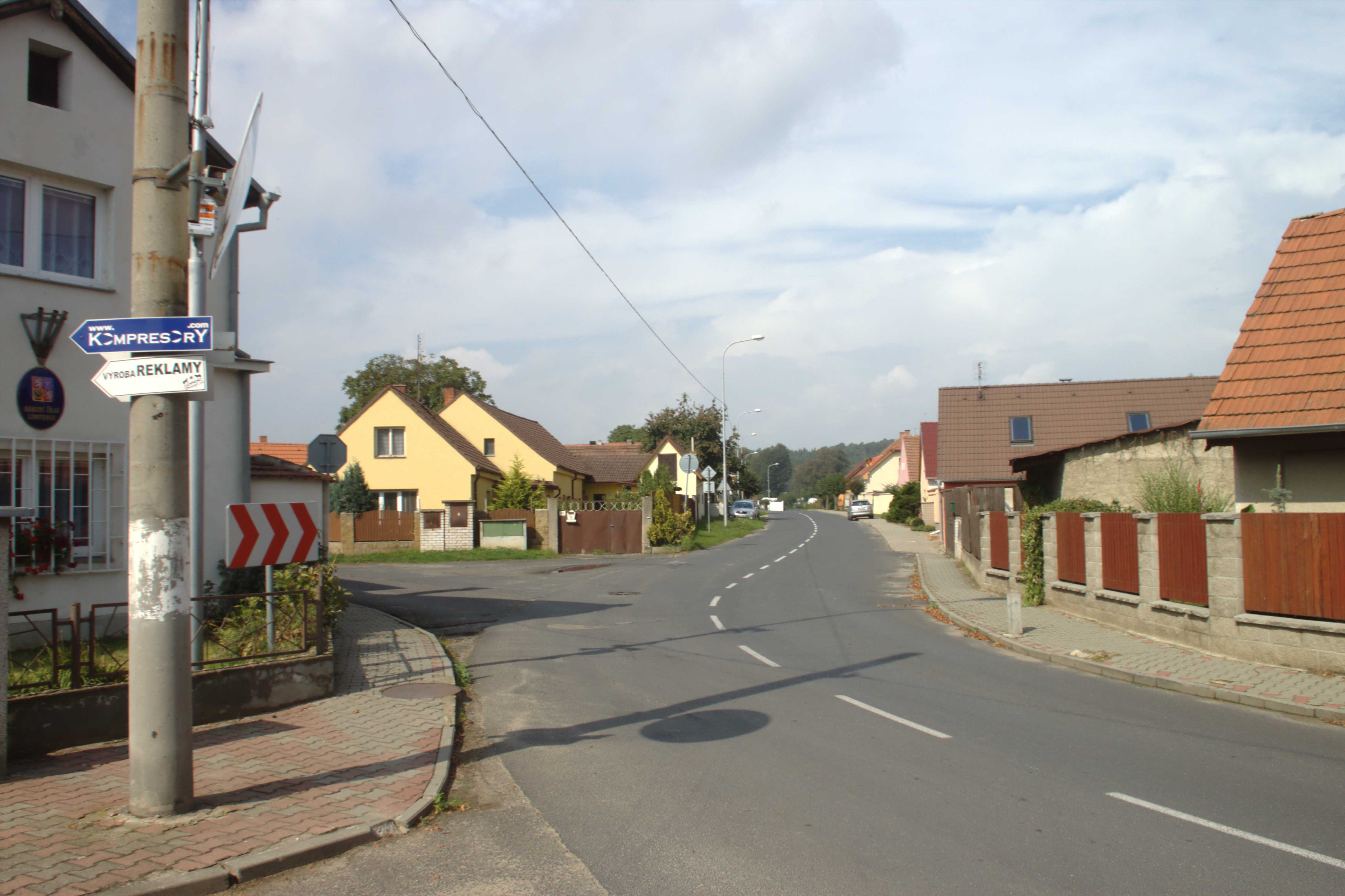 A turn near the town hall in Libotenice, Ústí Region, CZ